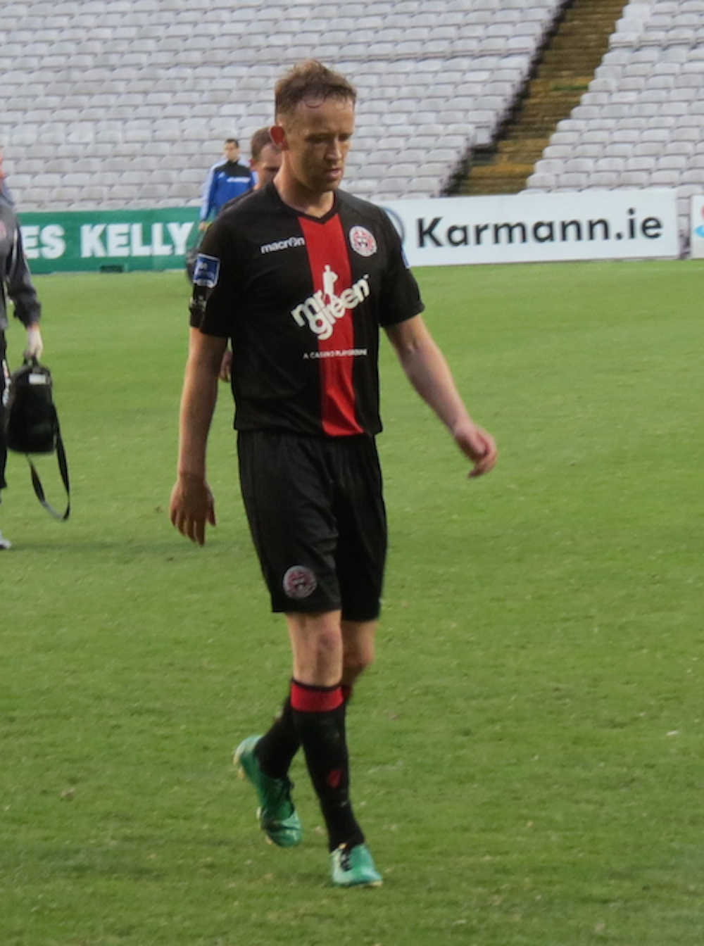 Aidan Price pictured vs Drogheda United at Dalymount Park, Aug 2014